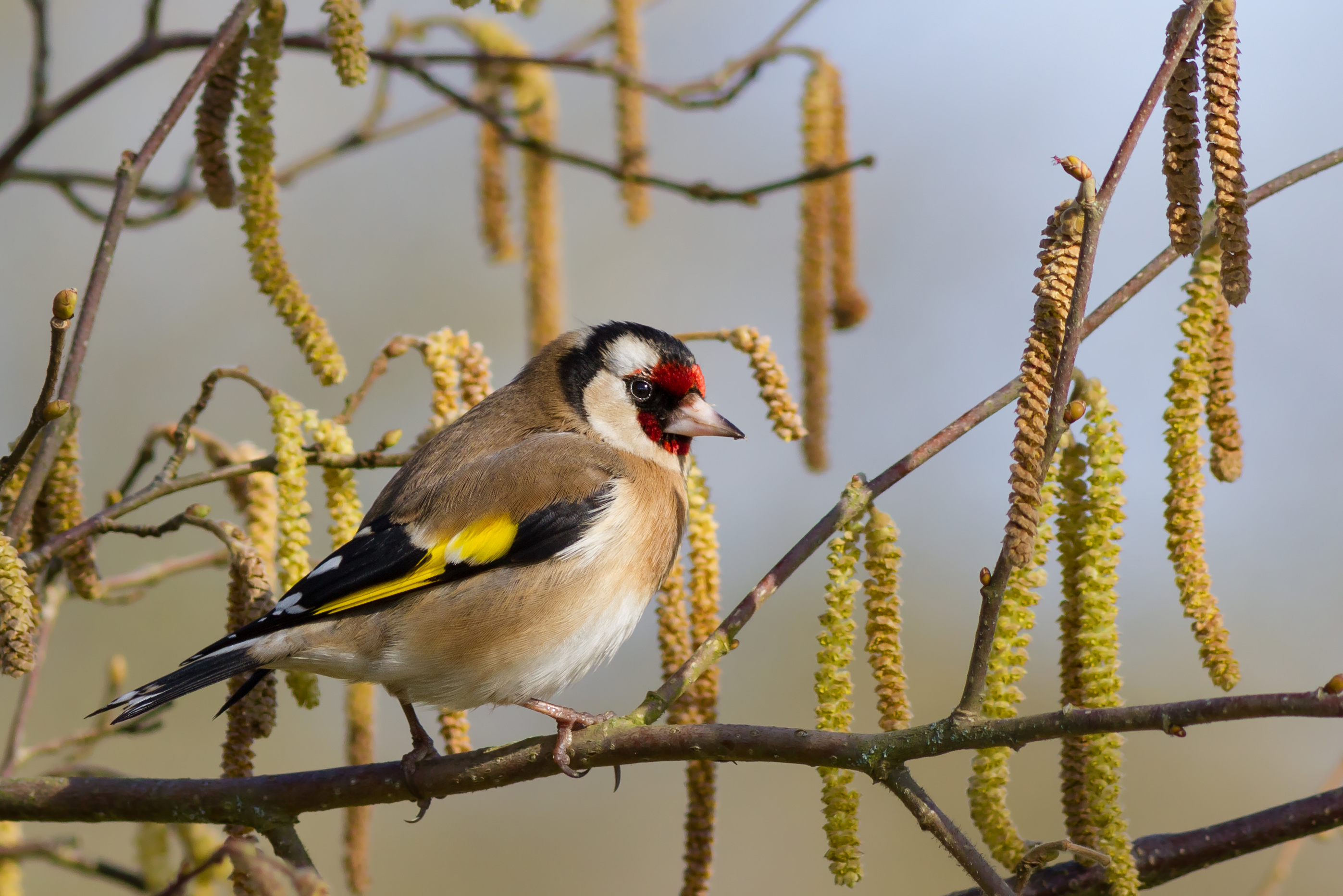 European Goldfinch.